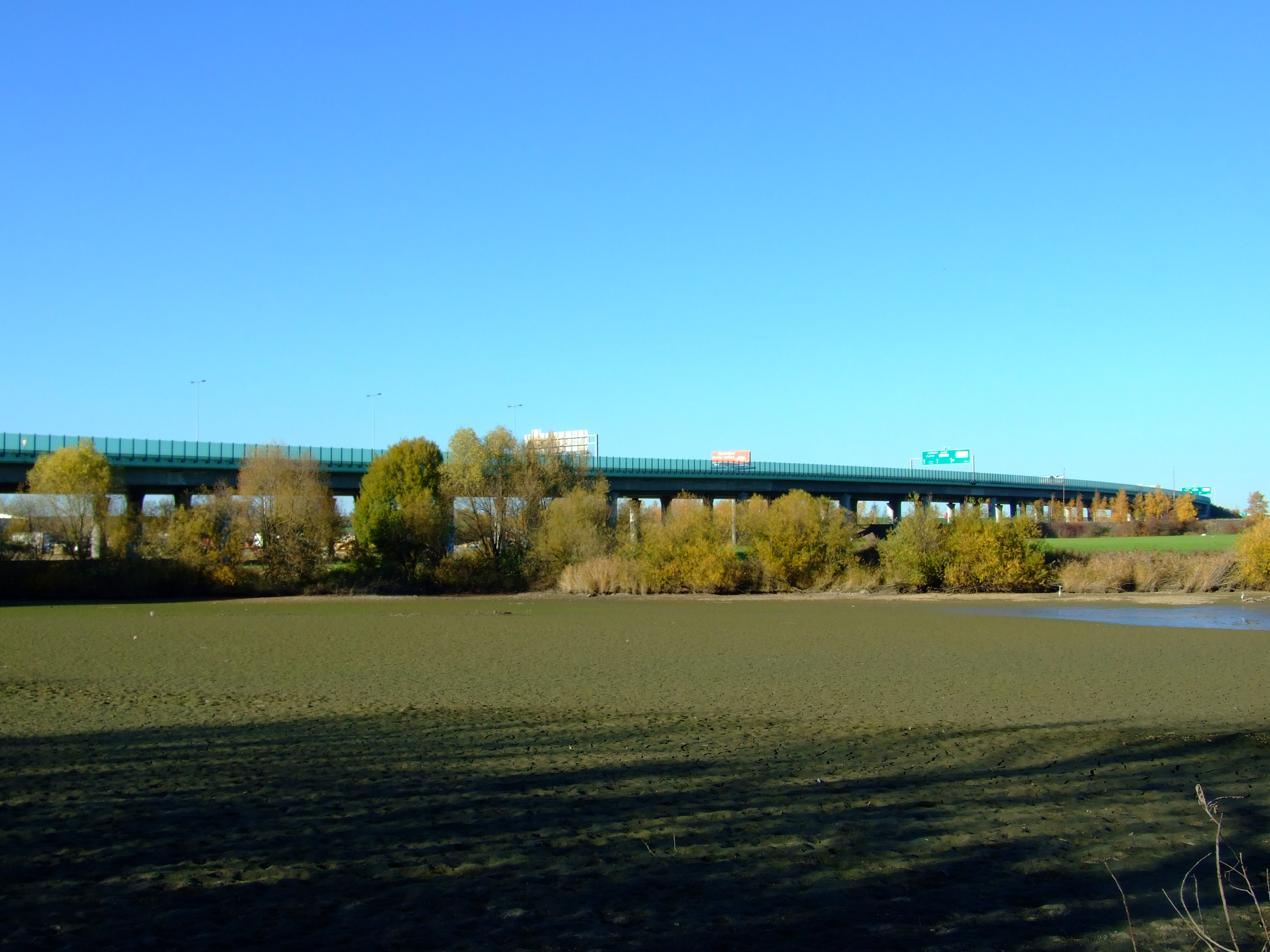 Highway bridge of Prague ring; here the bridge over Litovický potok creek in Ruzyně